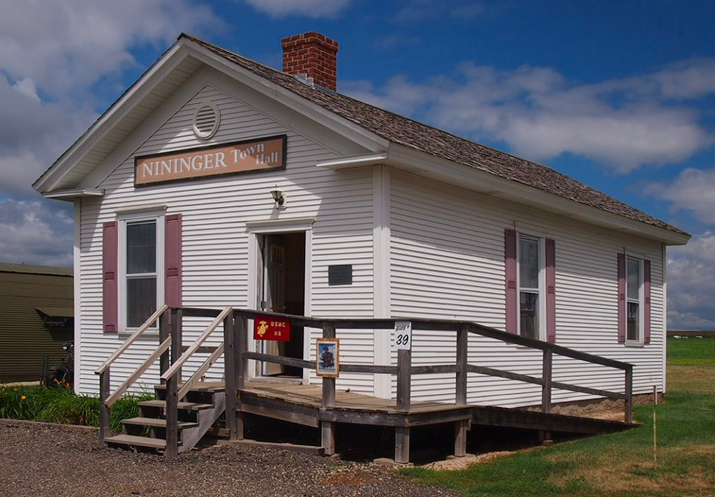 Nininger Town Hall (former Good Templars Hall), Little Log Cabin Pioneer Village, Hastings, Minnesota, USA